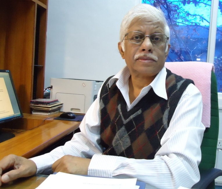 This picture of Prof. M.R.S. Rao was taken by me on 06-01-2010 in the lab office. I was Research Associate in his laboratory at JNCASR